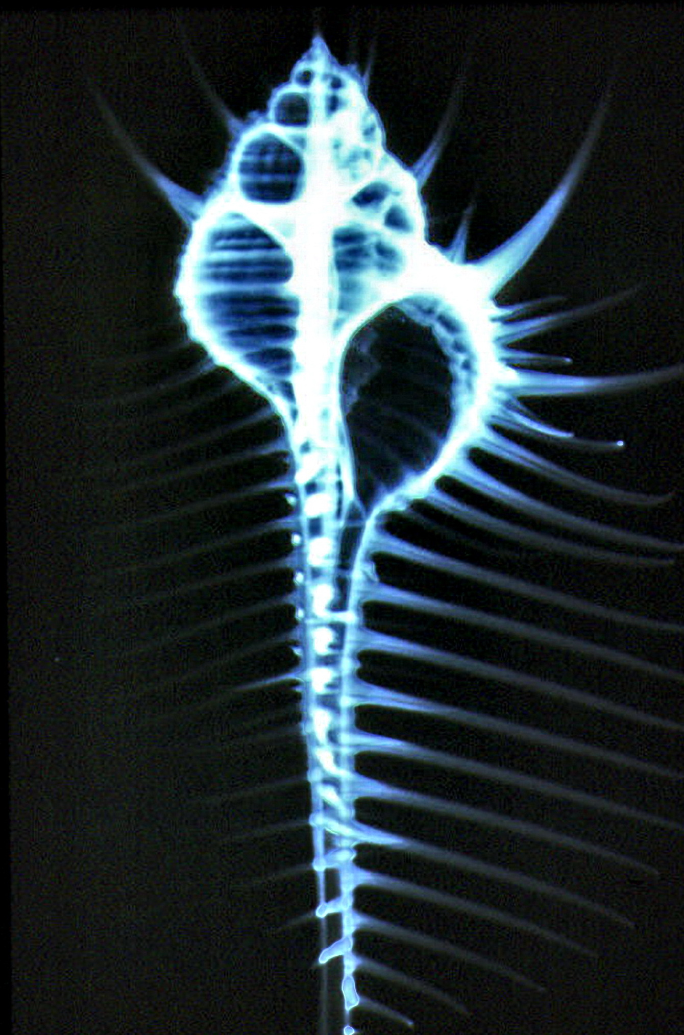 Radiology of seashell: Murex pecten (fr: Peigne de Venus)